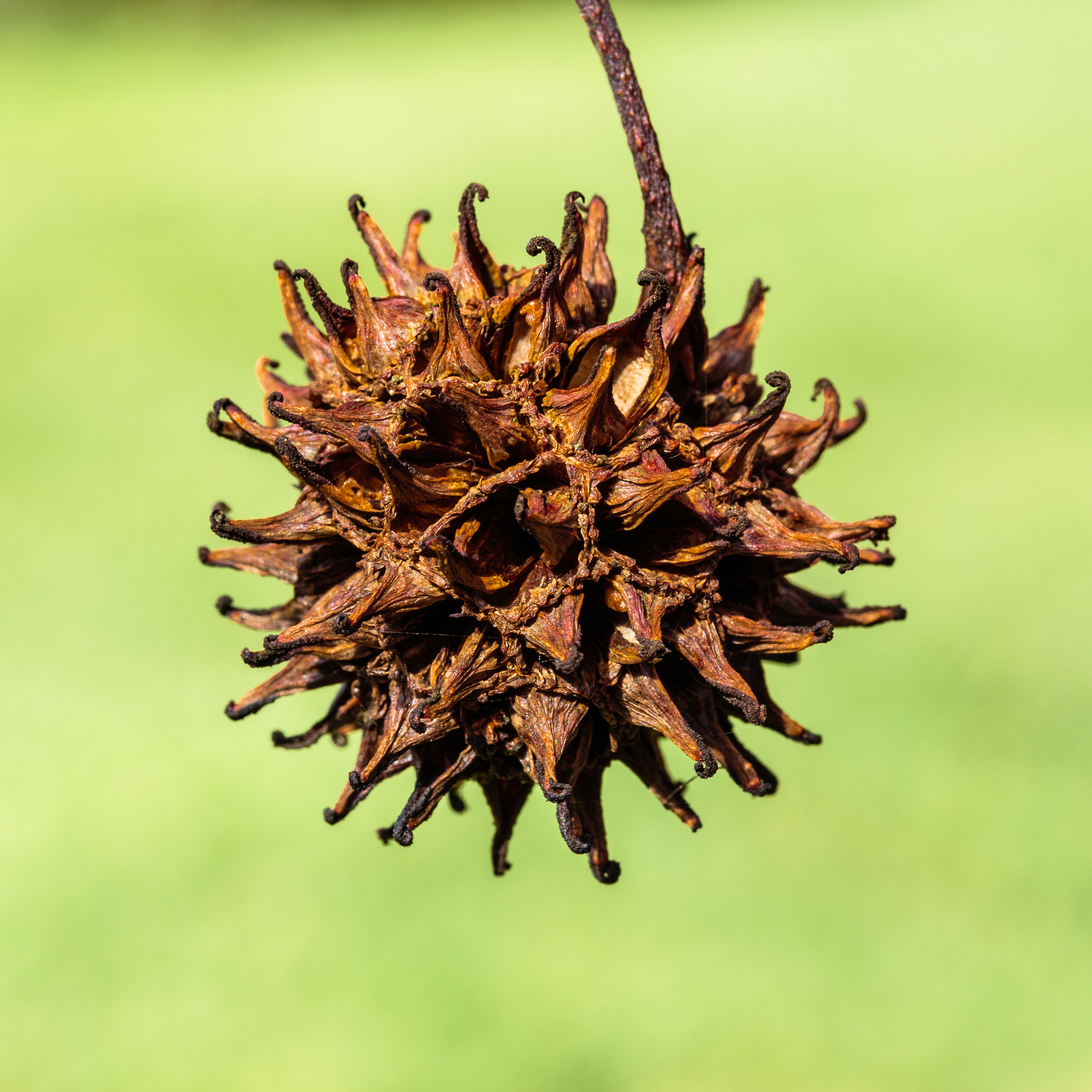 A seed box of an American sweetgum (Liquidambar styraciflua).